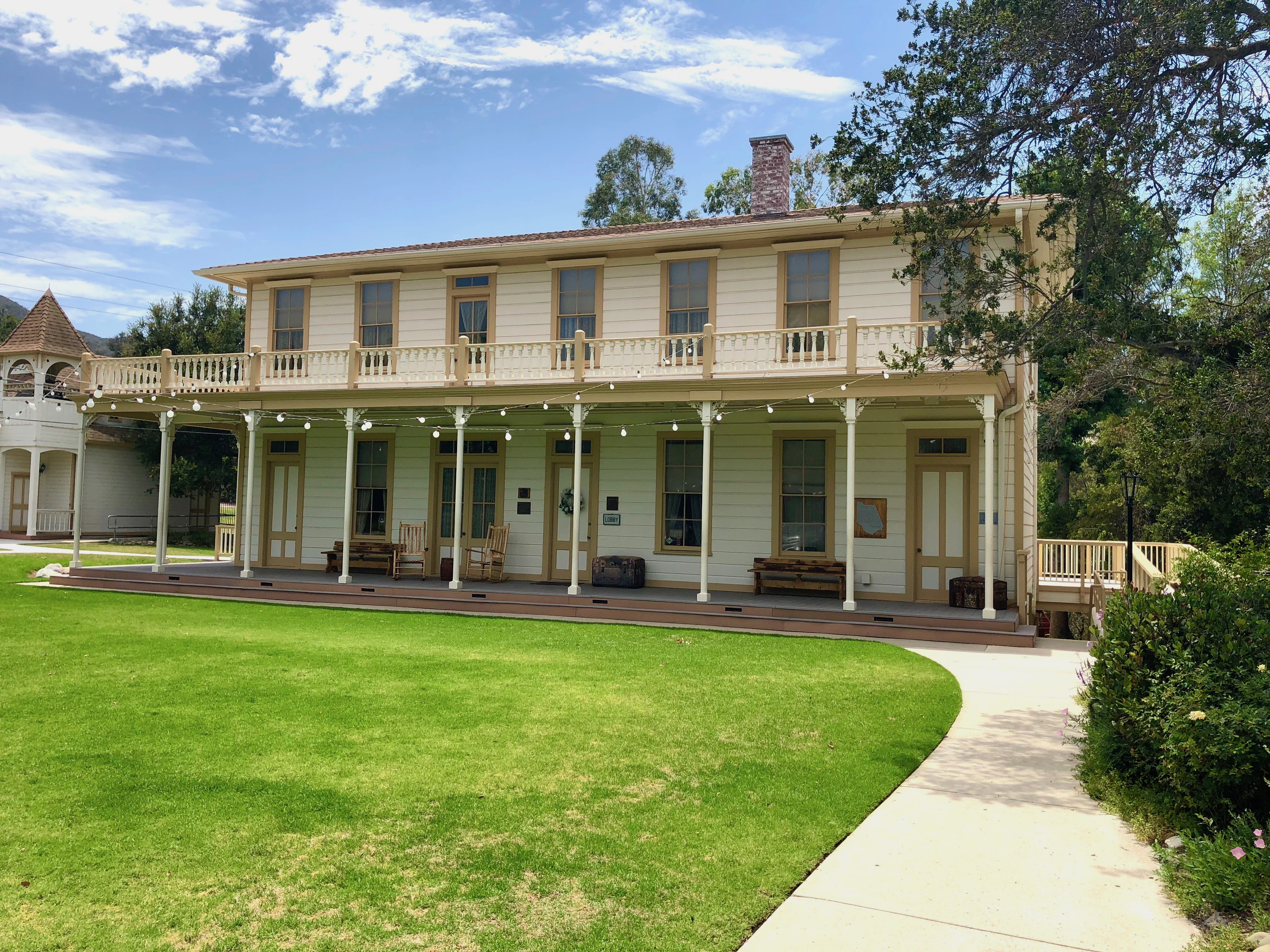 Stagecoach Inn (Grand Union Hotel) in Newbury Park, CA.